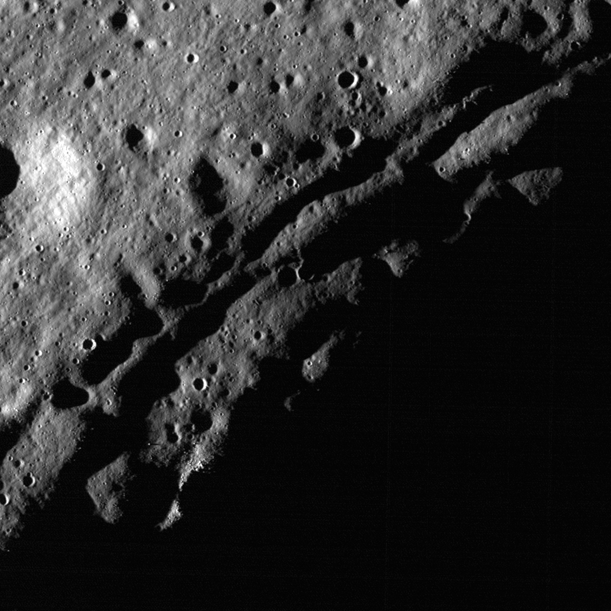 High incidence angle (83°) accentuates the slumping rim of Darwin C. The parallel fractures along the crater rim are slump blocks pulling away from the rim toward the interior of the crater, which is in shadow (lower right). LROC NAC M148624404R, image is 720 m across [NASA/GSFC/Arizona State University].